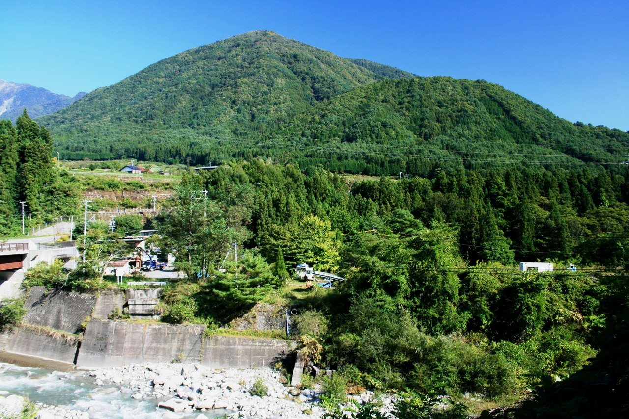 Mount Kazakoshi seen from Yoshino, Agematsu, Nagano Prefecture, Japan.